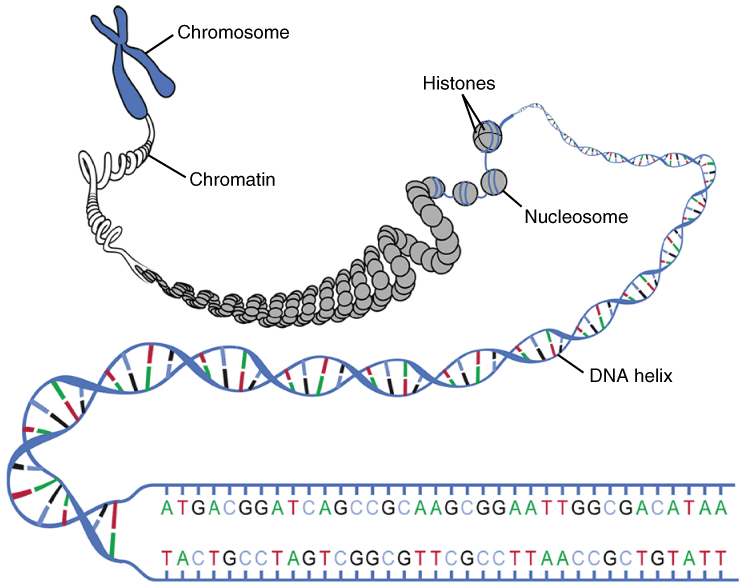 Version 8.25 from the Textbook OpenStax Anatomy and Physiology Published May 18, 2016